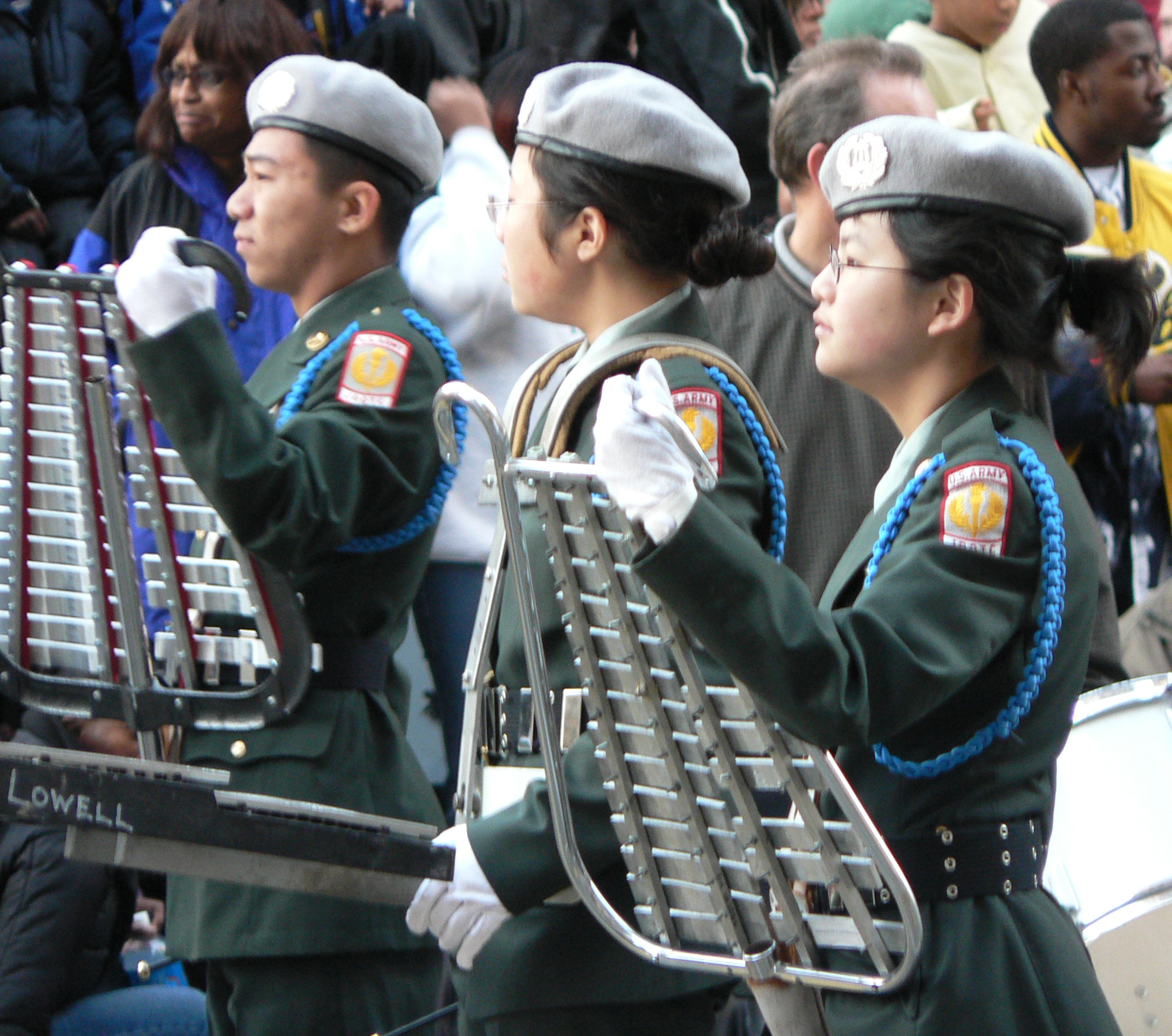 Chinese new year, San Francisco, 2006 JROTC students with glockenspiels. Copyright © 2006 Mai-Linh Đoàn